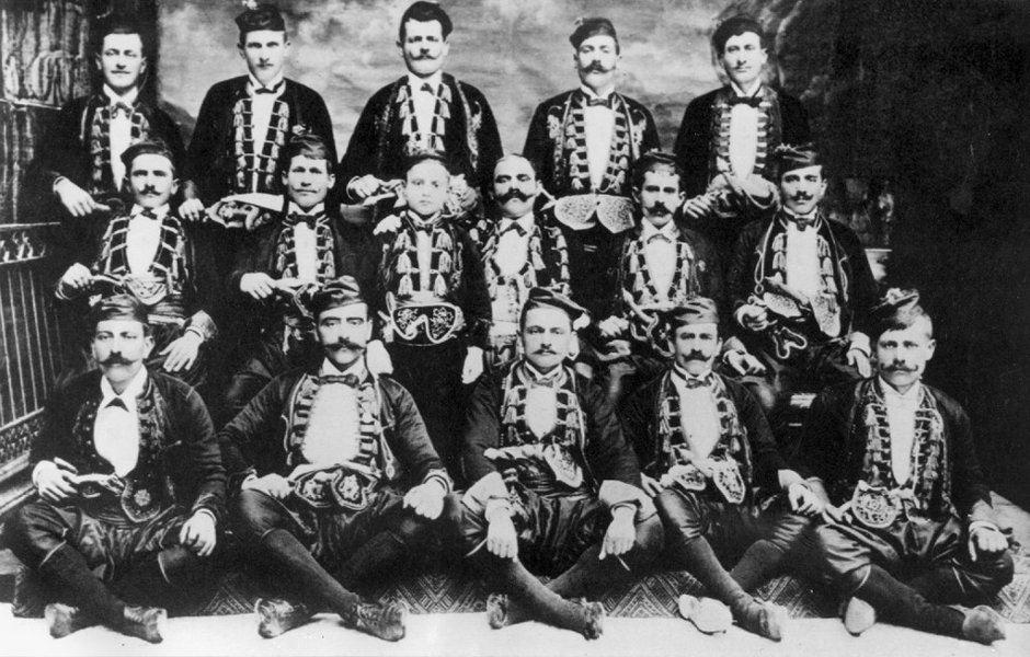 Boka Navy Kotor